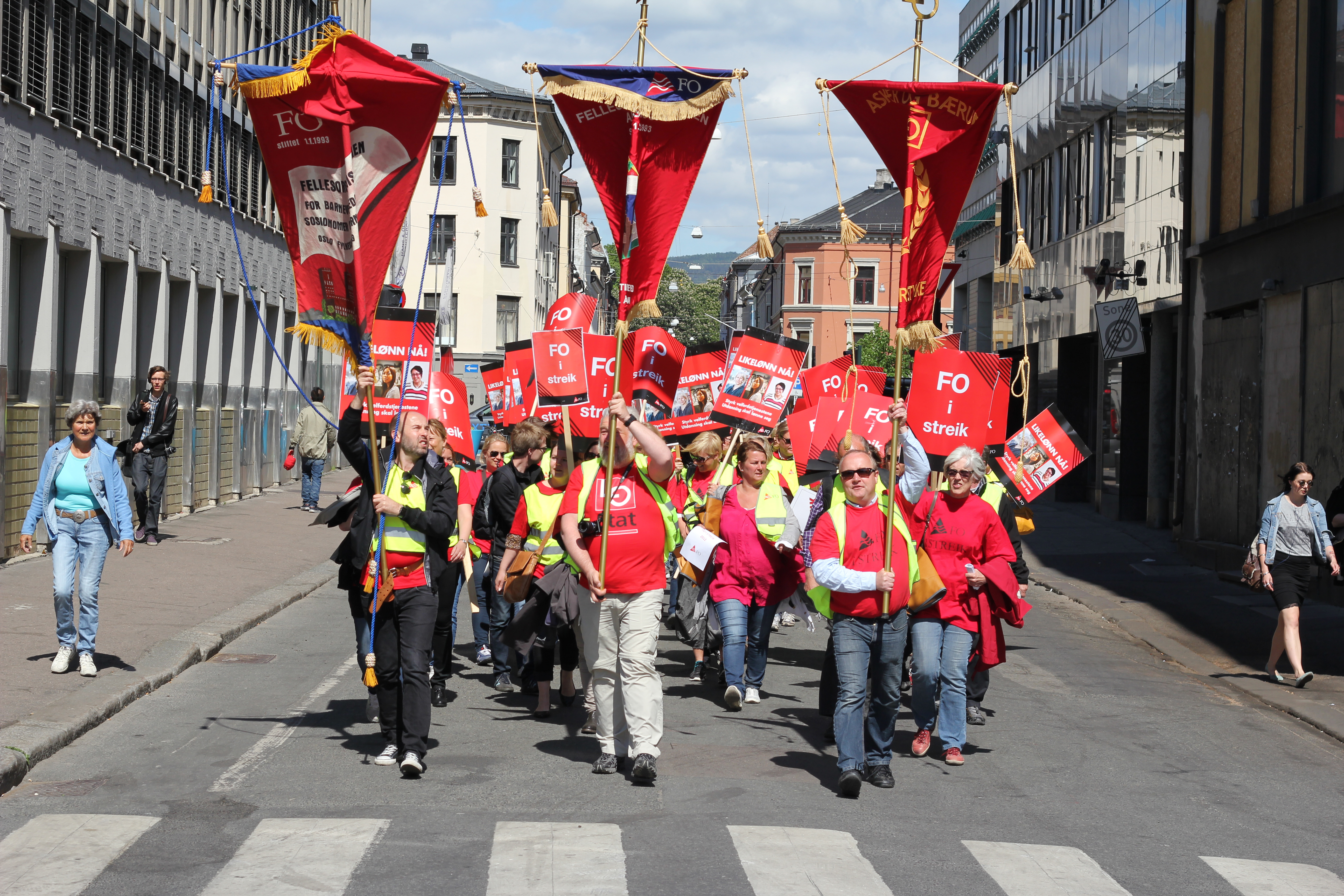 Members of the Norwegian trade union Fellesorganisasjonen during a strike in 2012.